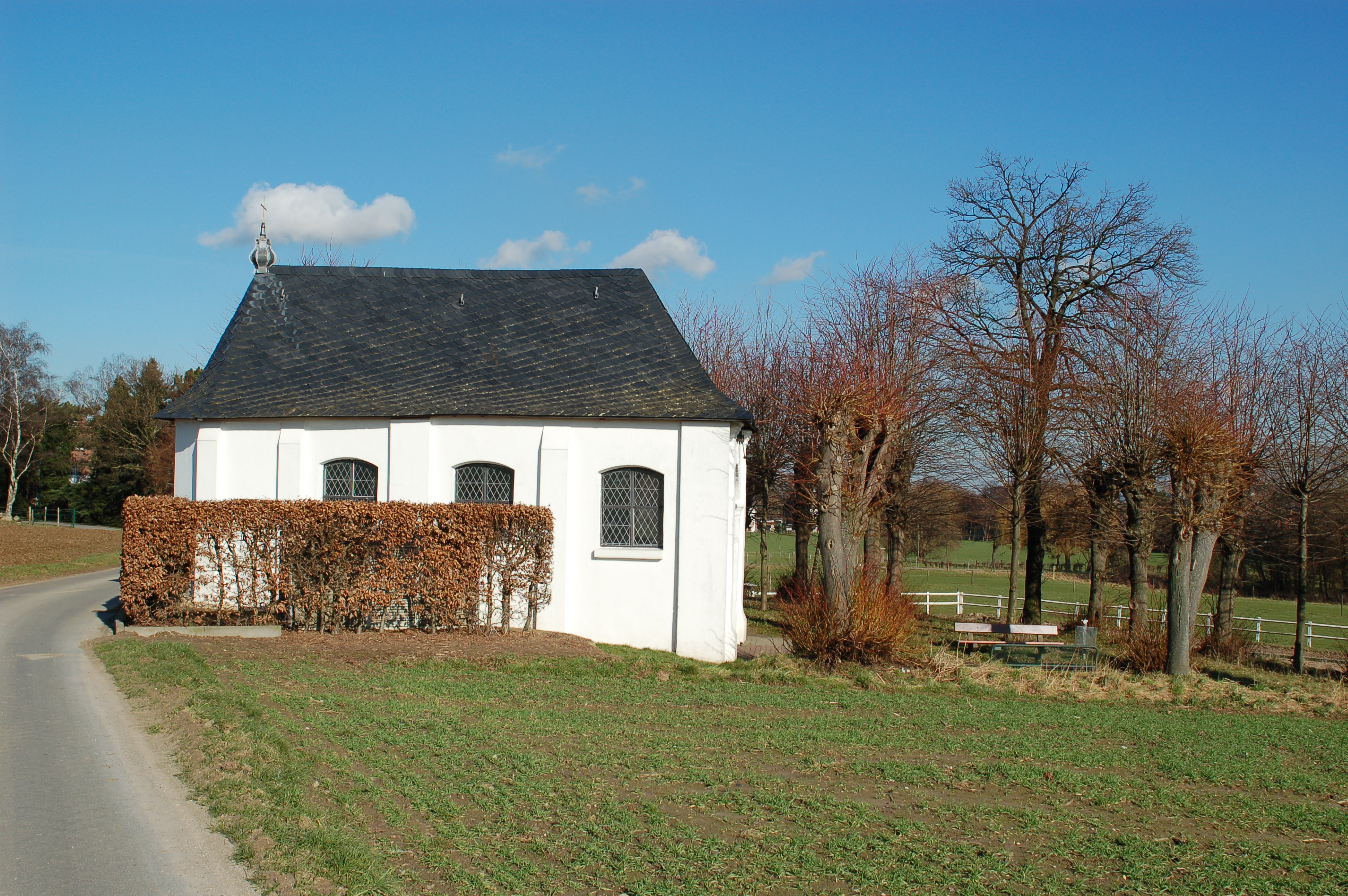 The Schlangenkapellchen outside of Heinsberg, Rhineland